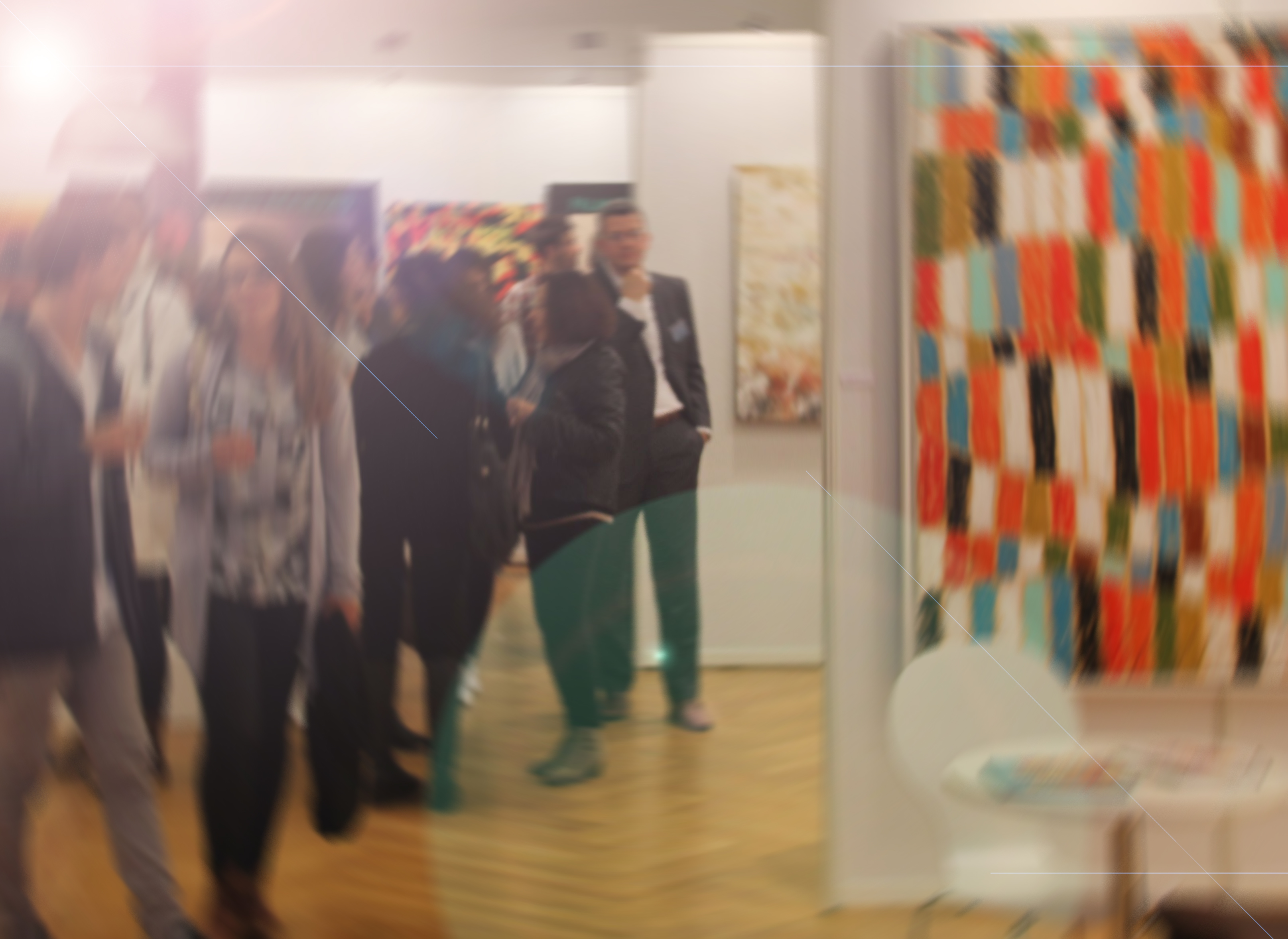 Photo of Art Fair Zurich